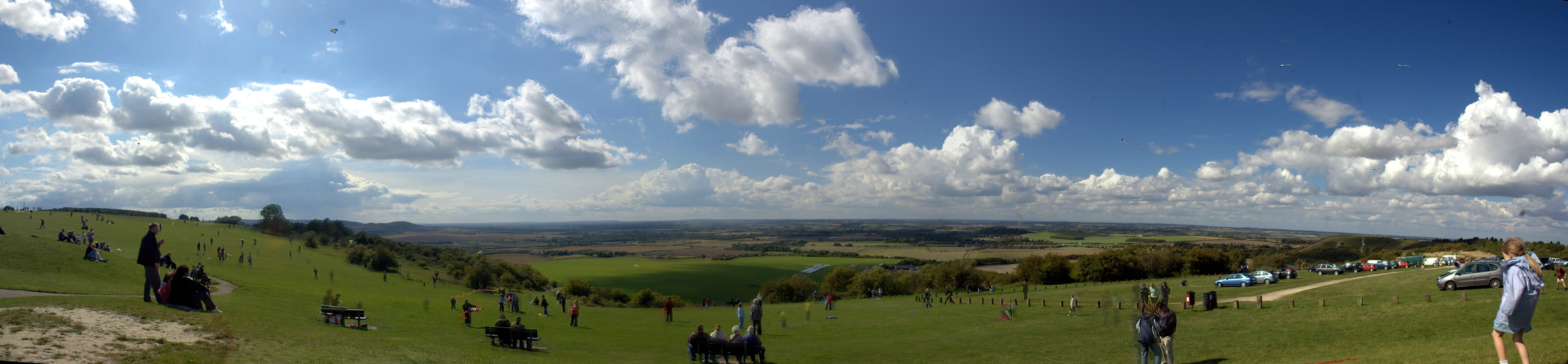 A panorama taken from the hilltop near the National Trust post of the Dunstable Downs. Below is the glider field and all around are people flying kites from this popular spot.